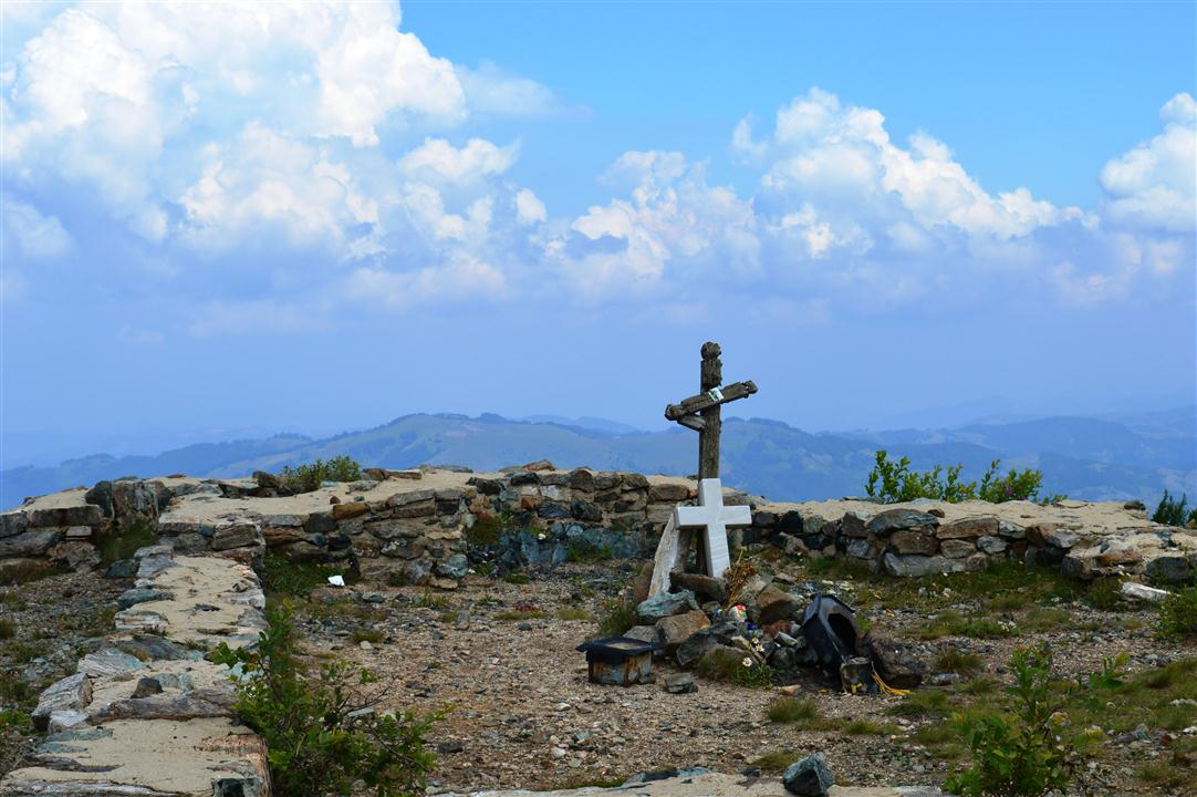 Raska Municipality - Kopaonik